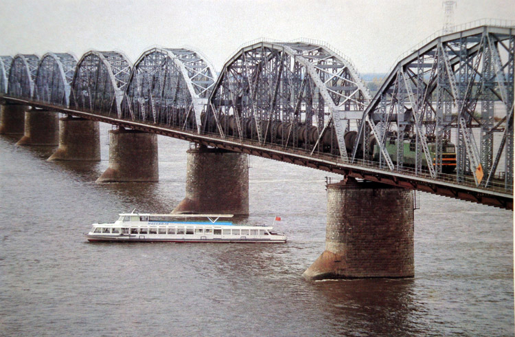 the old rail bridge across Amur (70-80's) Other information Amur rail bridge (70-80's)